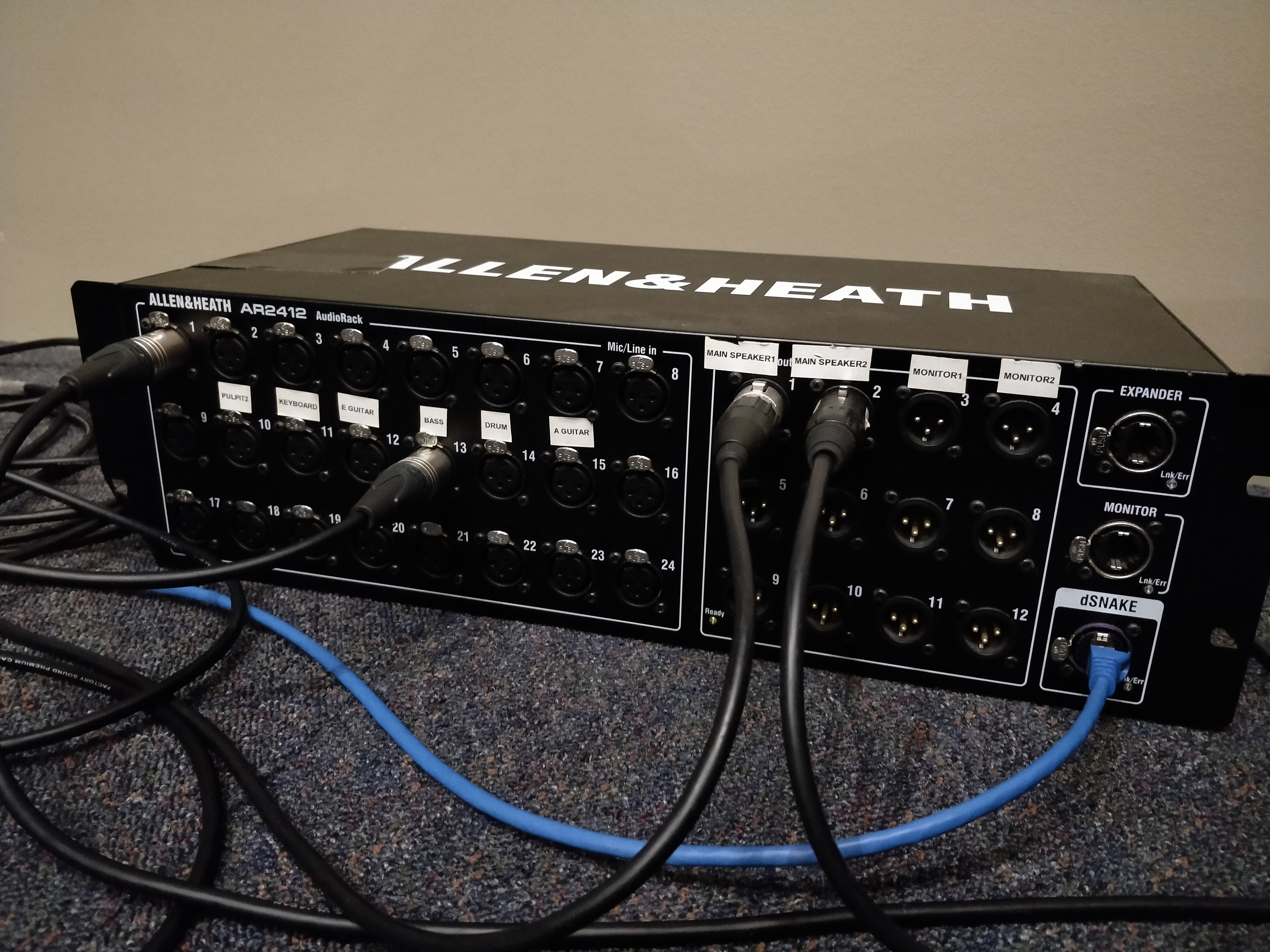 Allen & Heath's AR2412 digital stage box with ethernet cable connected, as well as several microphones and speakers. Details at